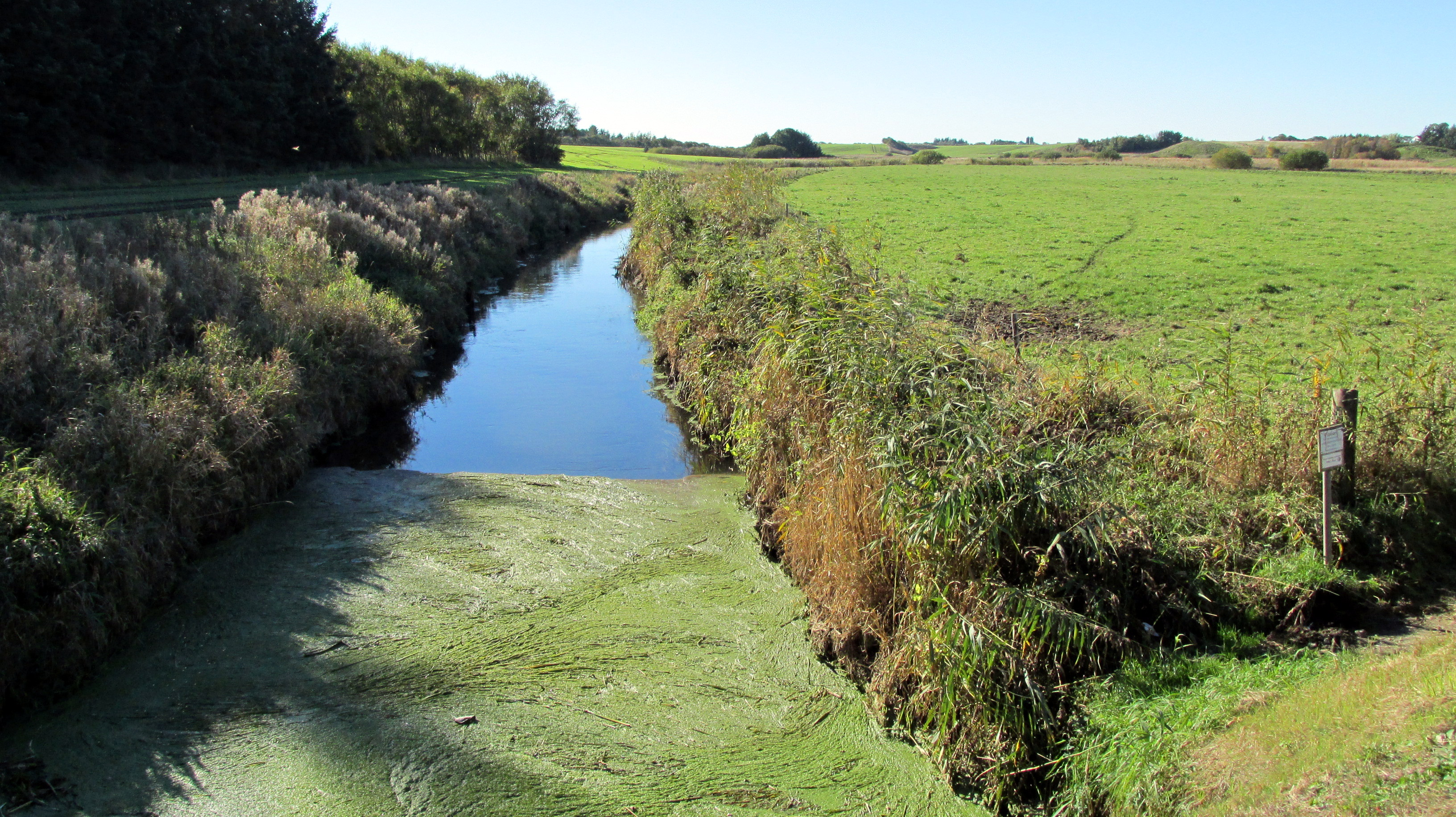 Åstrup Møllebæk, a stream in northern Denmark